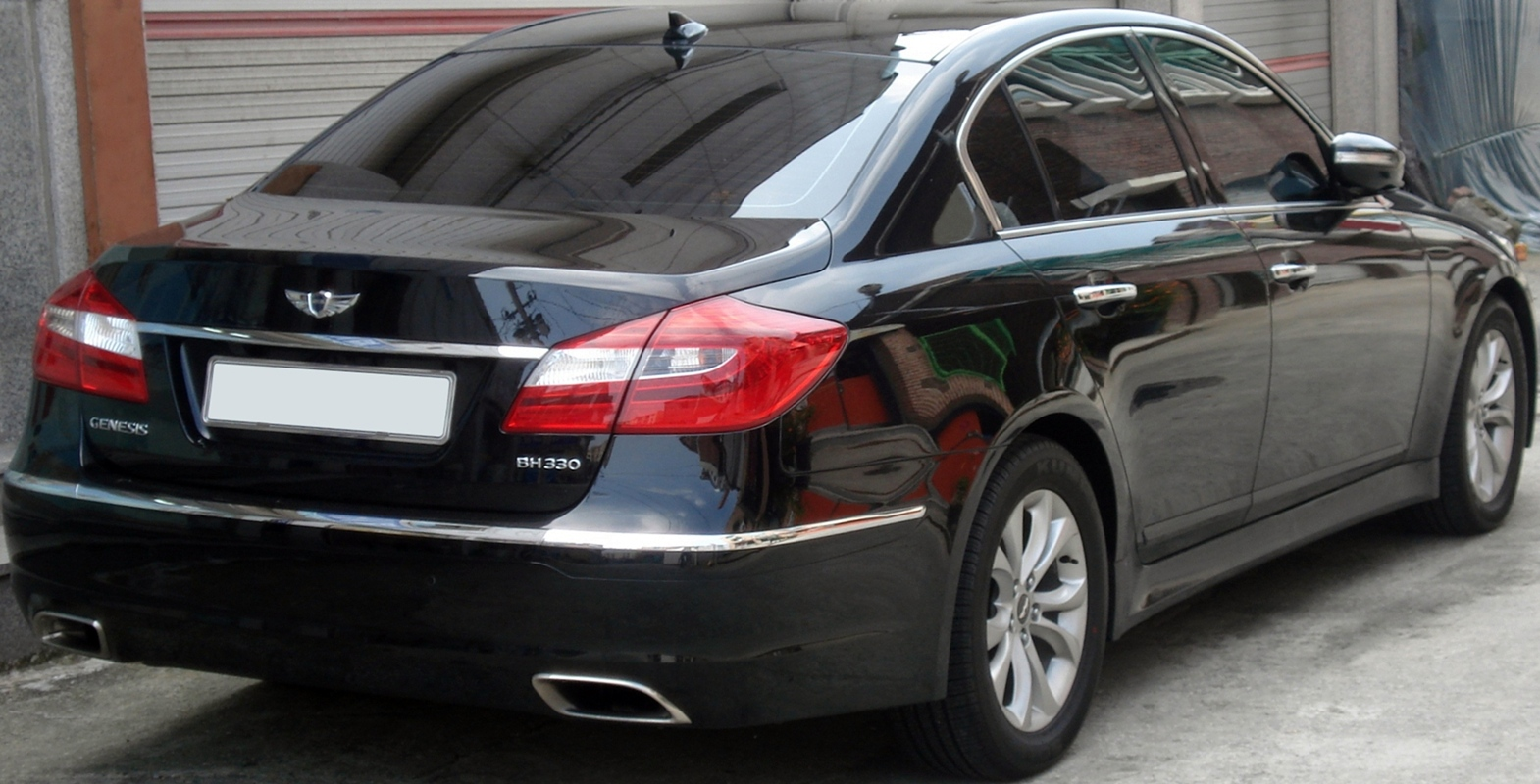 Hyundai Genesis